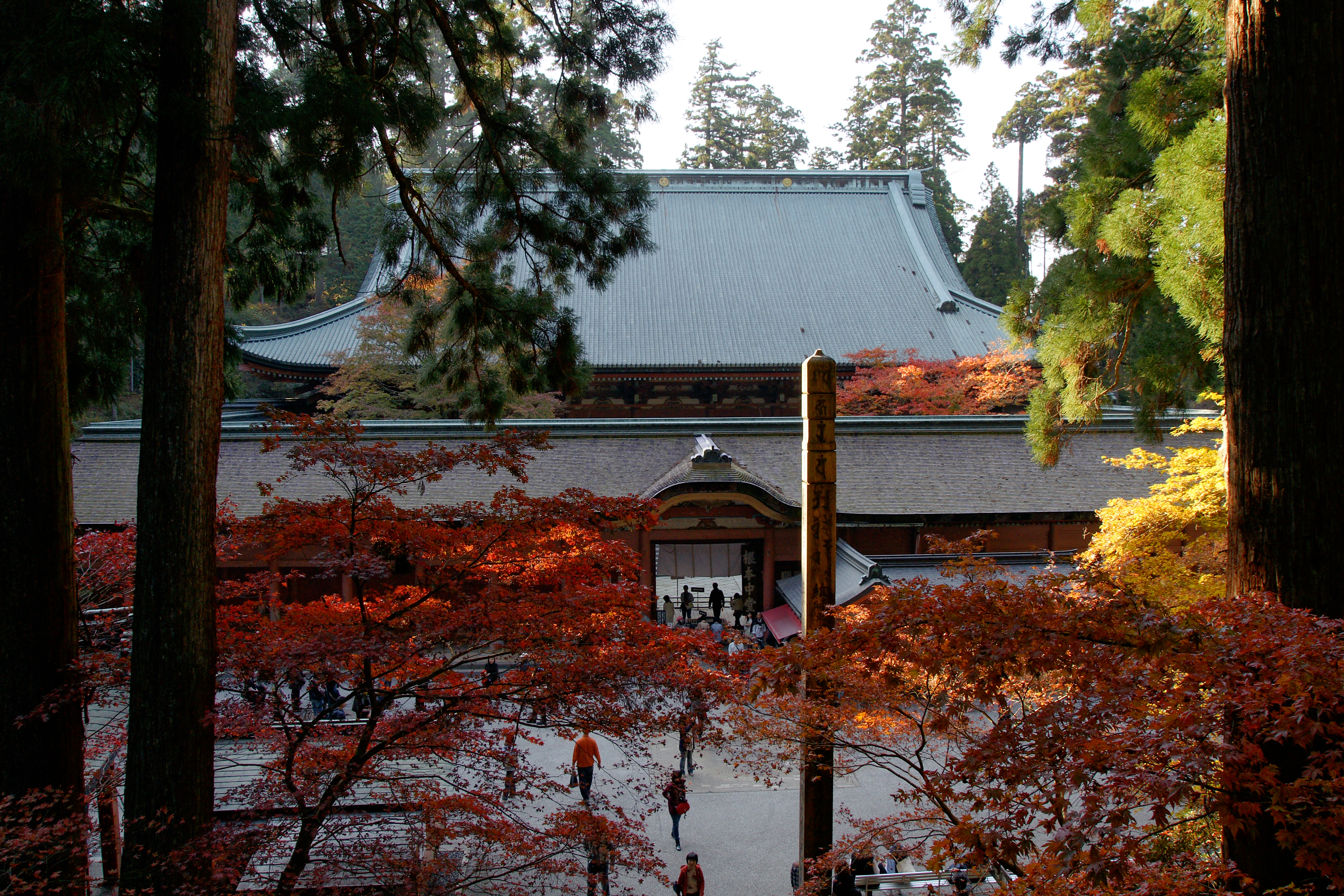 The Konponchudo of Enryaku-ji Buddhist temple (Japan's National Treasure), Otsu, Shiga prefecture, Japan. It was rebuilt in 1642.